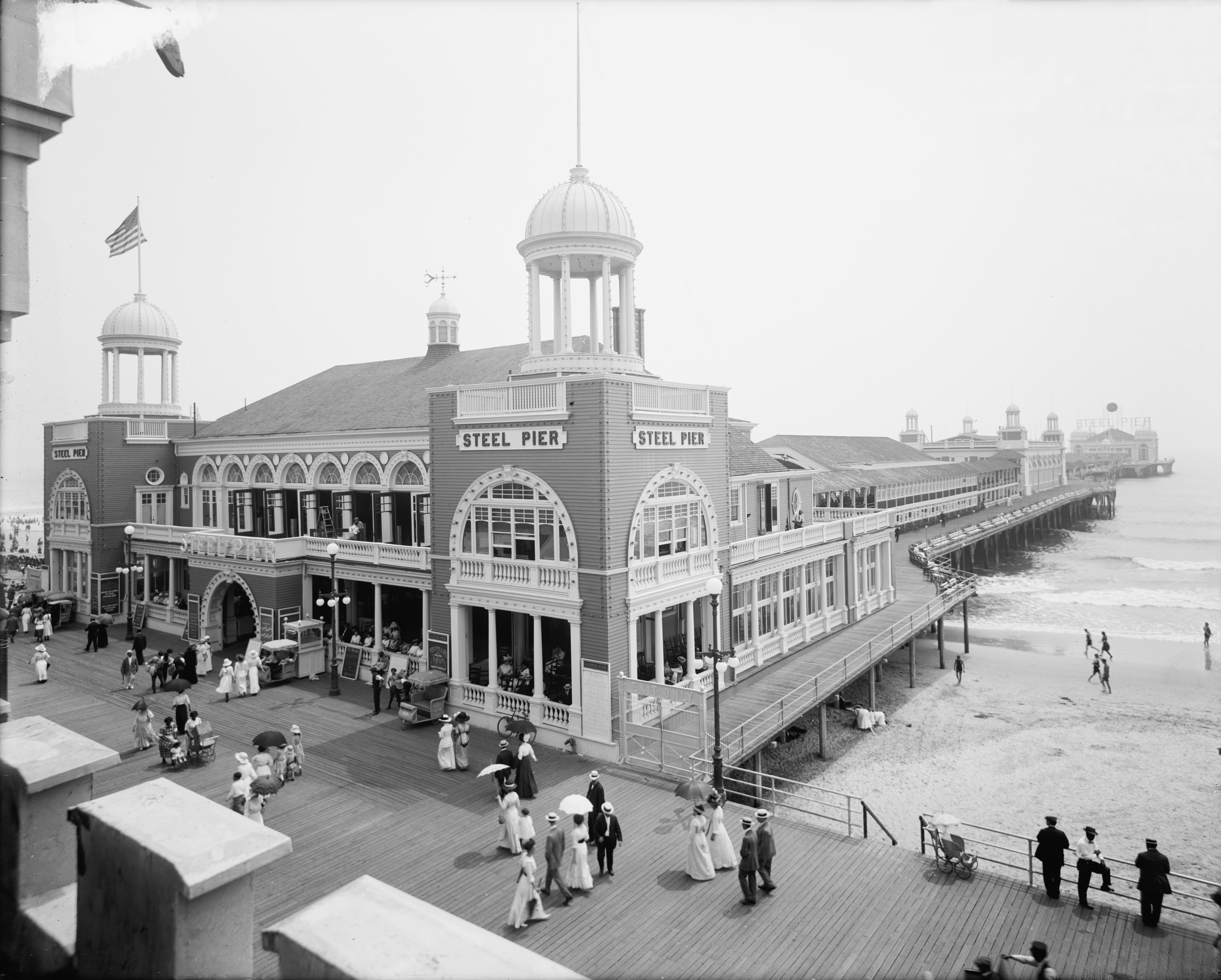 The Steel Pier at Atlantic City. This was most likely taken around 1915.